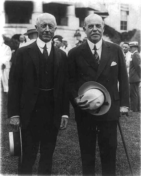 Speaker of the House Longworth and Navy Secretary Charles Adams - three-quarter length portrait - standing on White House lawn